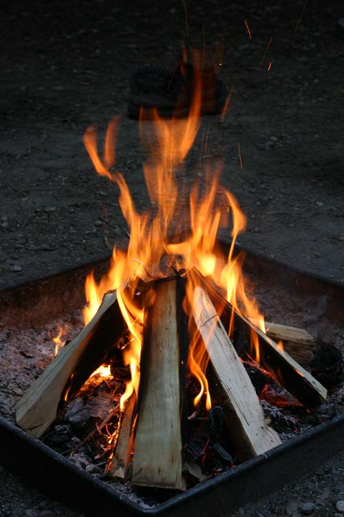 I can't take full credit for this lovely fire. Gwen's fire starting skills came into play here. ( Great! my girlfriend is a pyro)